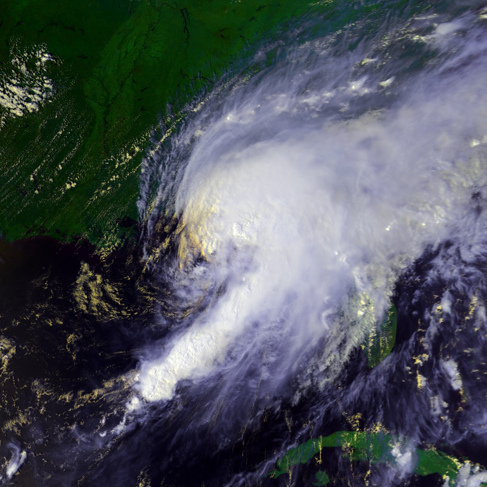 Hurricane Earl at peak intensity on September 2 at 2028 UTC. This image was produced from data from NOAA-14, provided by NOAA. Maximum sustained winds were 100 mph and its minimum central pressure was 988 mb.